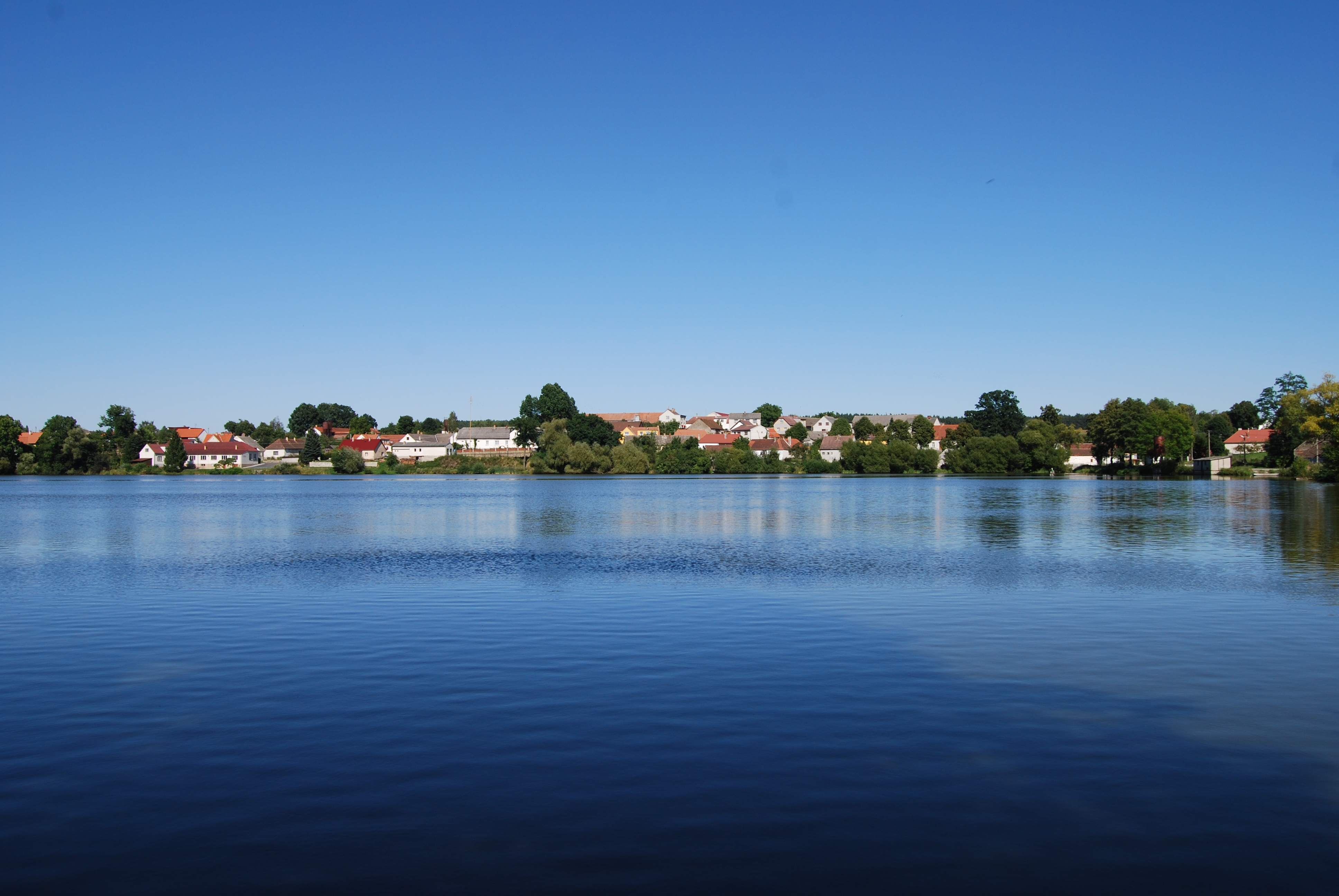 Velký Borovanský rybník (pond) with Borovany village in Písek District, Czech Republic.